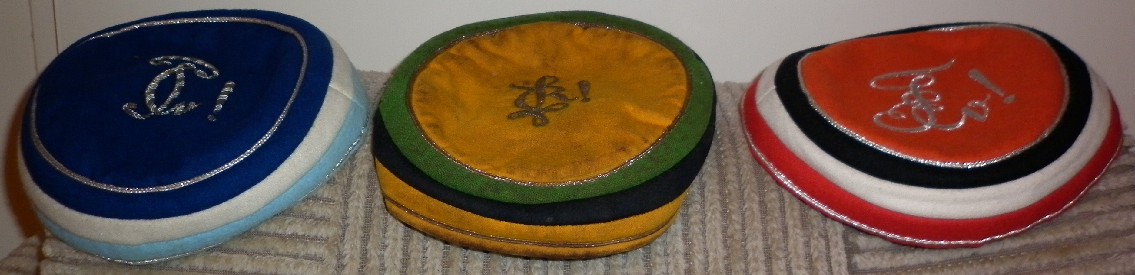 Tönnchen, from left to right: Sängerschaft zu St. Pauli Jena et Burgundia Breslau in Münster, Sängerschaft Rheno-Silesia zu Clausthal-Zellerfeld, Freie Burschenschaft Schlägel und Eisen zu Clausthal-Zellerfeld